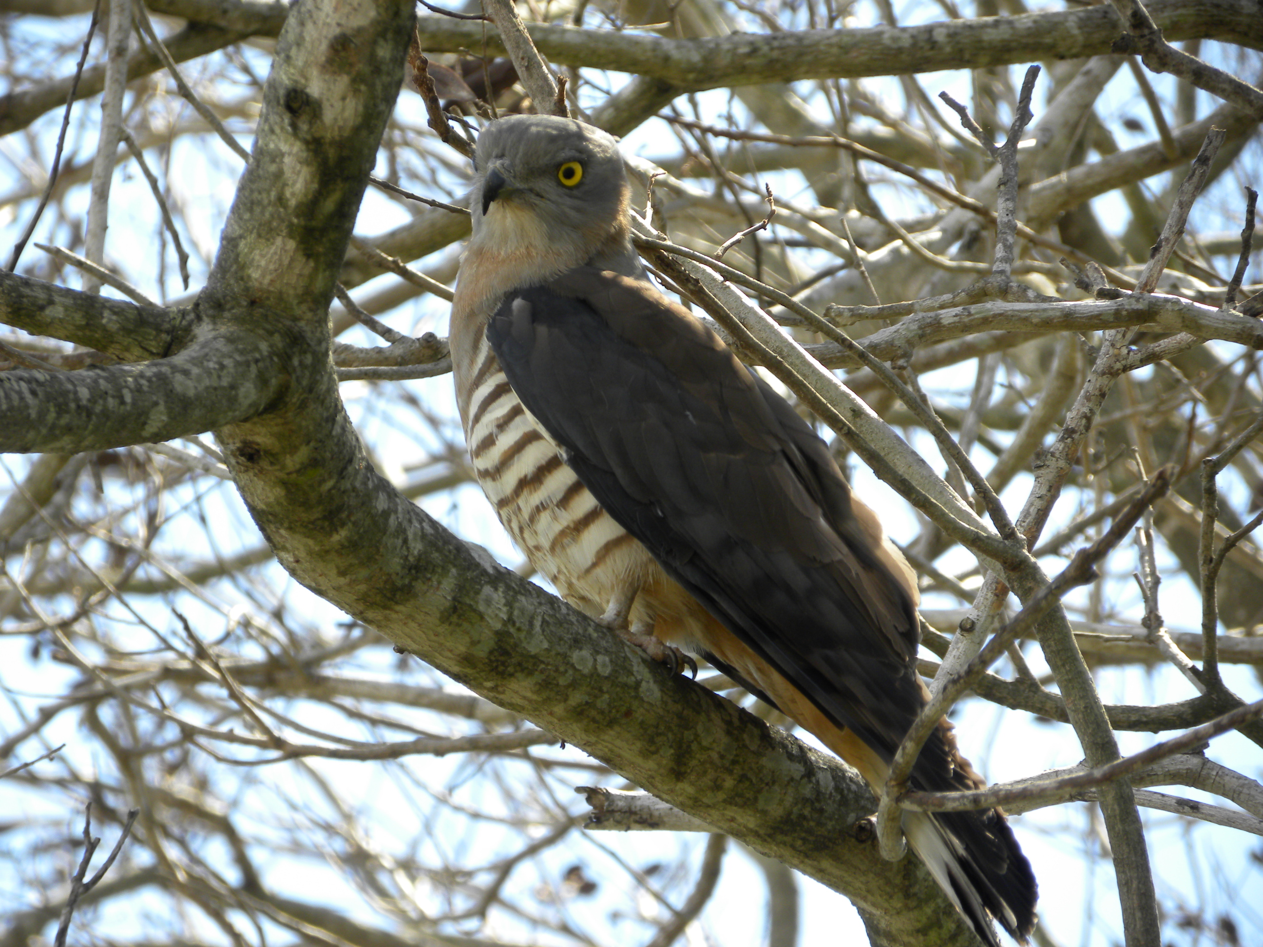 Pacific Baza (Aviceda subcristata) photograpphed in Gladstone, Central Queensland, Australia